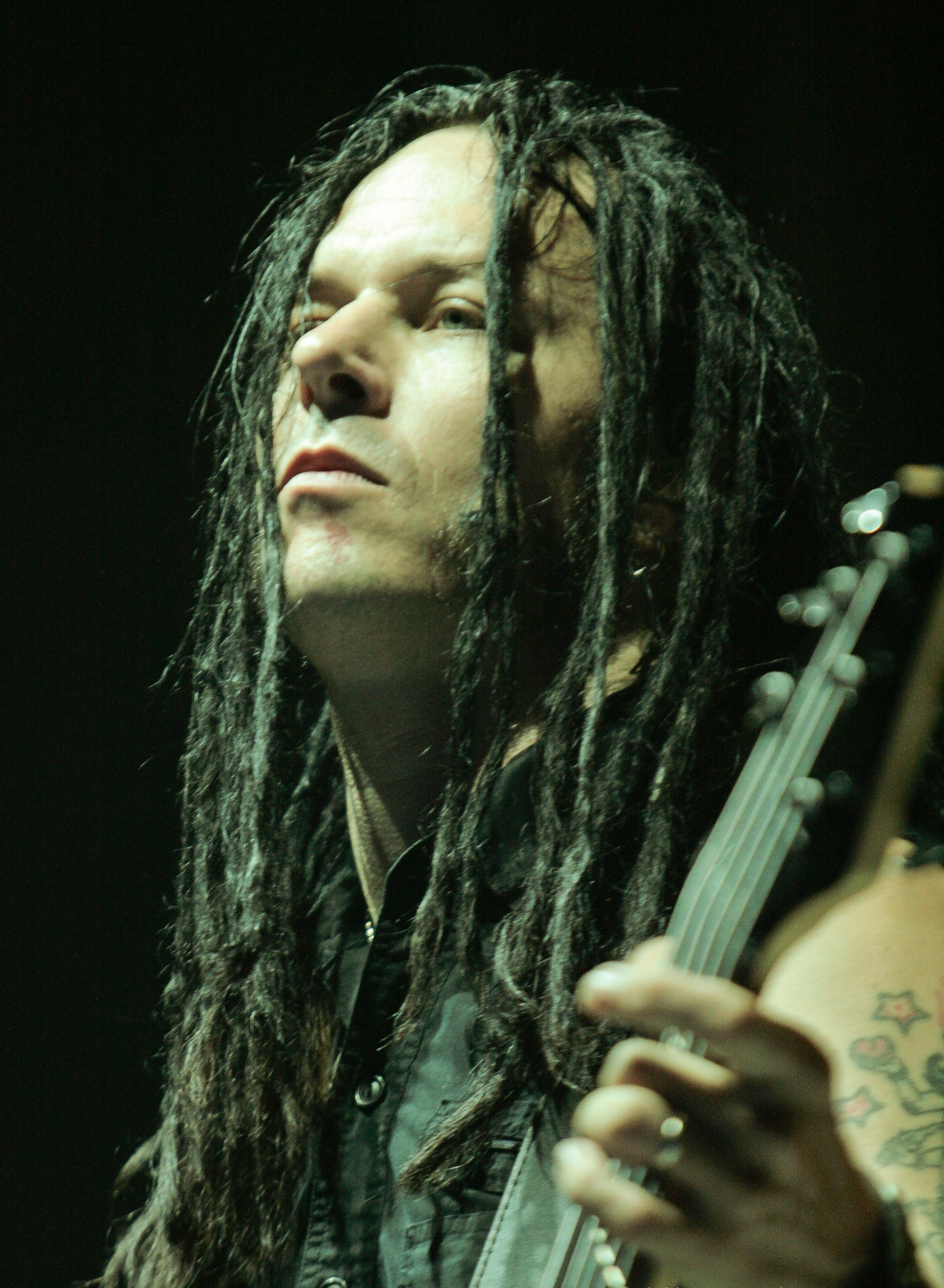 John Moyer from Disturbed live at Mayhem Festival 2011.